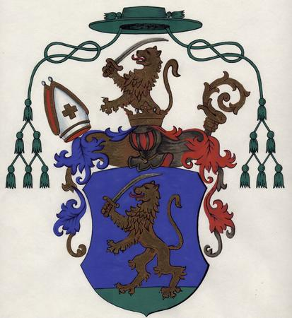 Coat of arms of Ignác Séllyei Nagy, Bishop of Székesfehérvár (1777-1789) (Hungary)